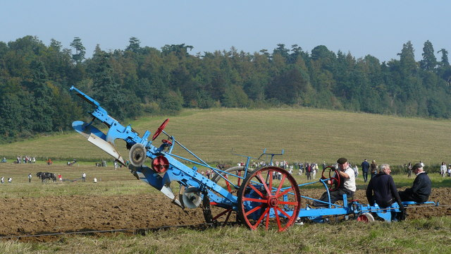 Steam Plough at Loseley This plough is being hauled between two Fowler ploughing engines, one situated at either end of the field. The plough is connected to both ploughing engines by means of a steel cable, wound onto a drum situated below the boiler of each engine. On the plough, one man is steering, the other two are adding weight to ensure that the plough does not topple over. In the early part of WW2, my father was driving an ambulance on a part-time basis, and attended a fatal accident involving this type of plough.